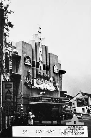 AWM Caption: The Cathay Theatre in Singapore.